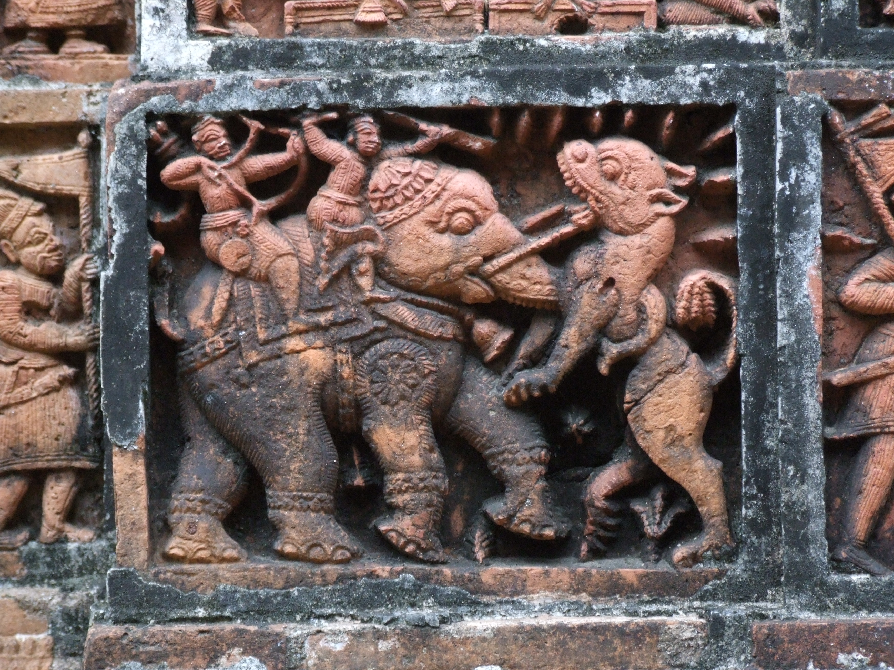 Kantanji's Temple in Dinajpur, Bangladesh. Photograph taken by: Saiful Aziz Shamsir.